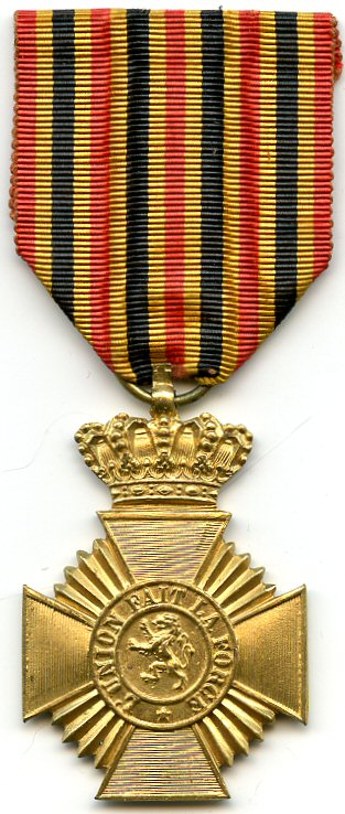 Military Decoration 2nd class (Belgium)